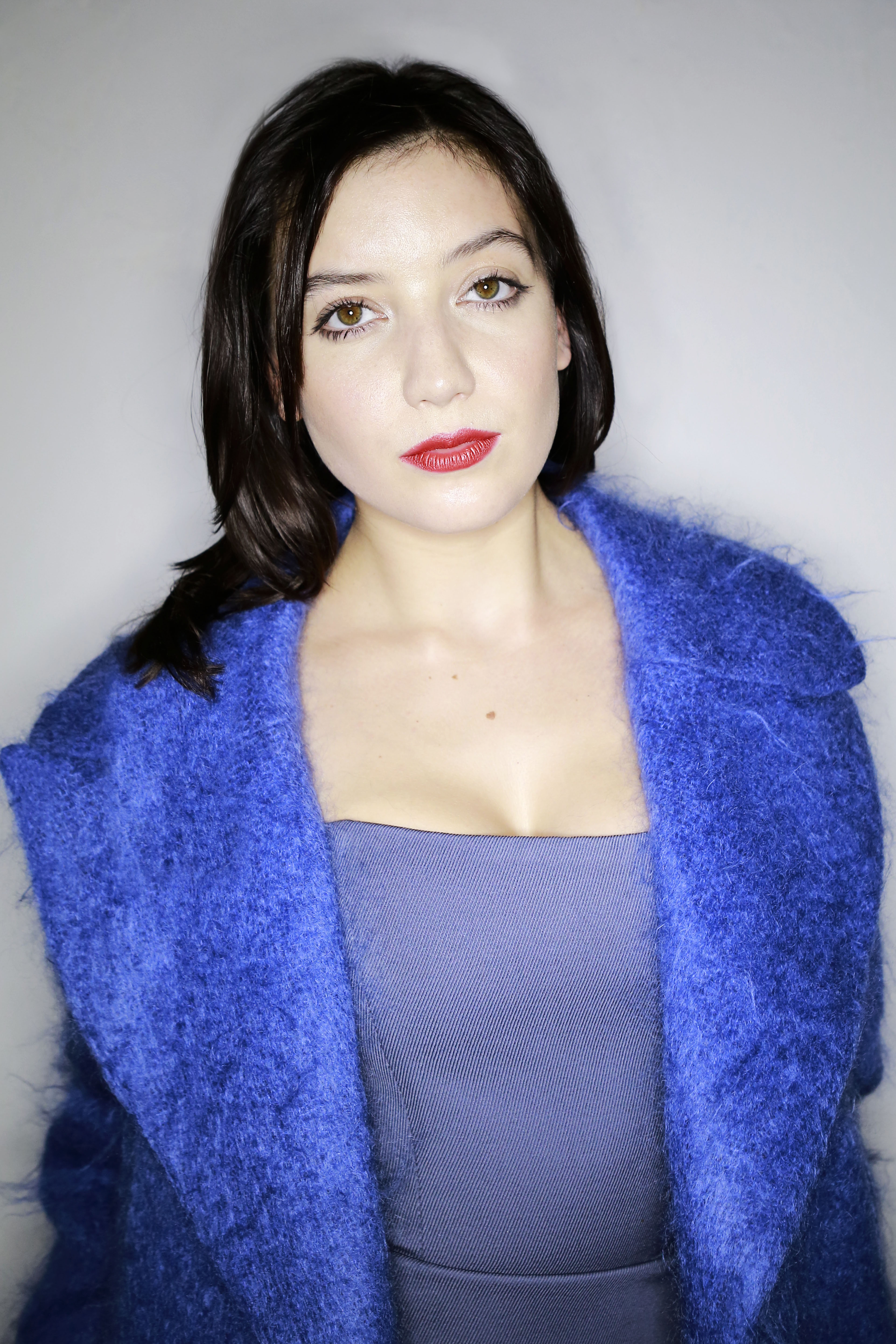 Dayse lowe portrait by : Walterlan Papetti